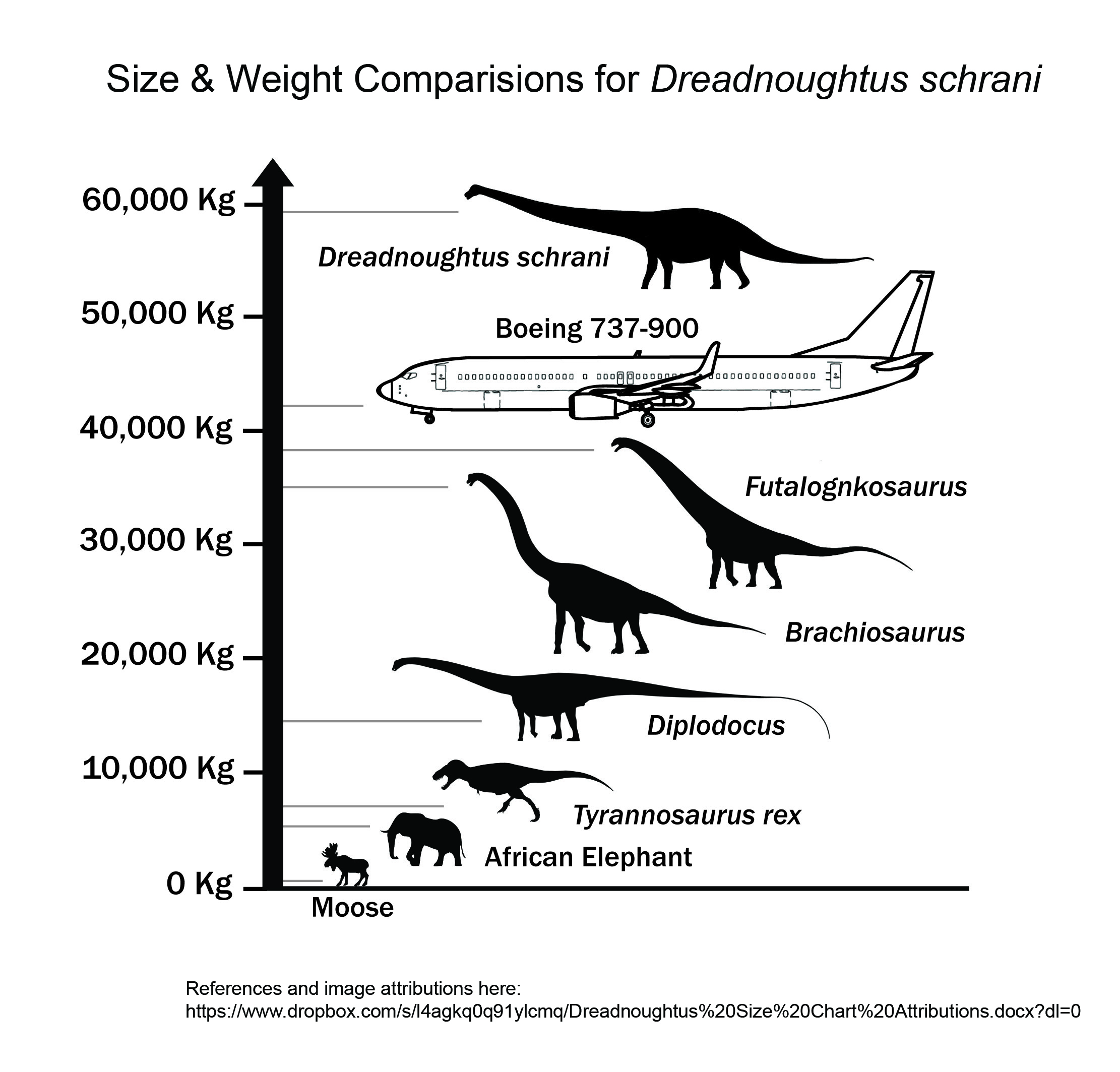 Dreadnoughtus Mass Comparison Chart (Metric)